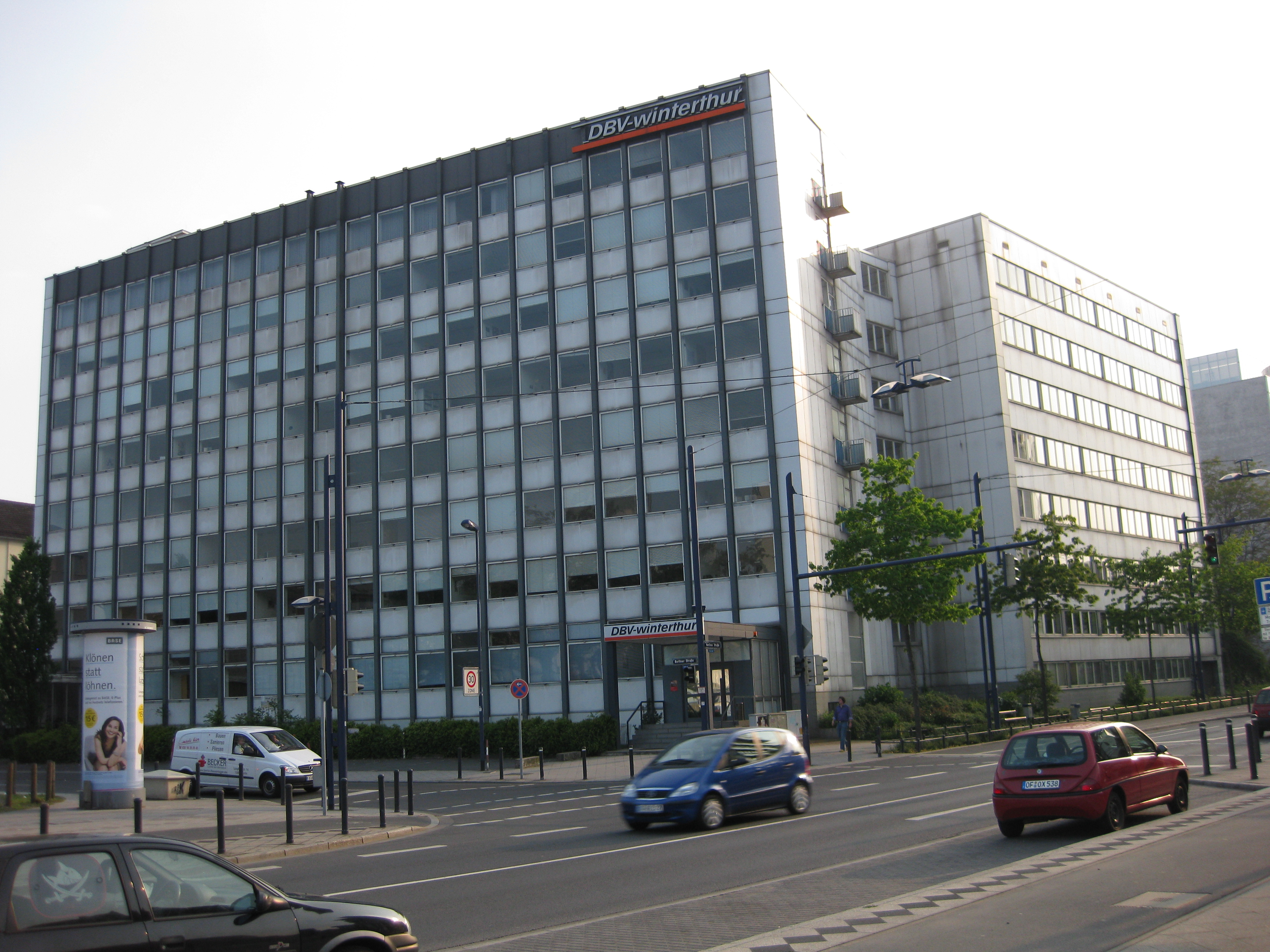 DBV-Winterthur, Berliner-Str., Offenbach